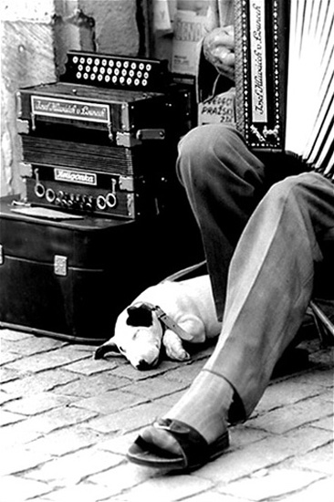 An accordion busker practicing his trade on Charles Bridge. Photo by Gary Mark Smith.